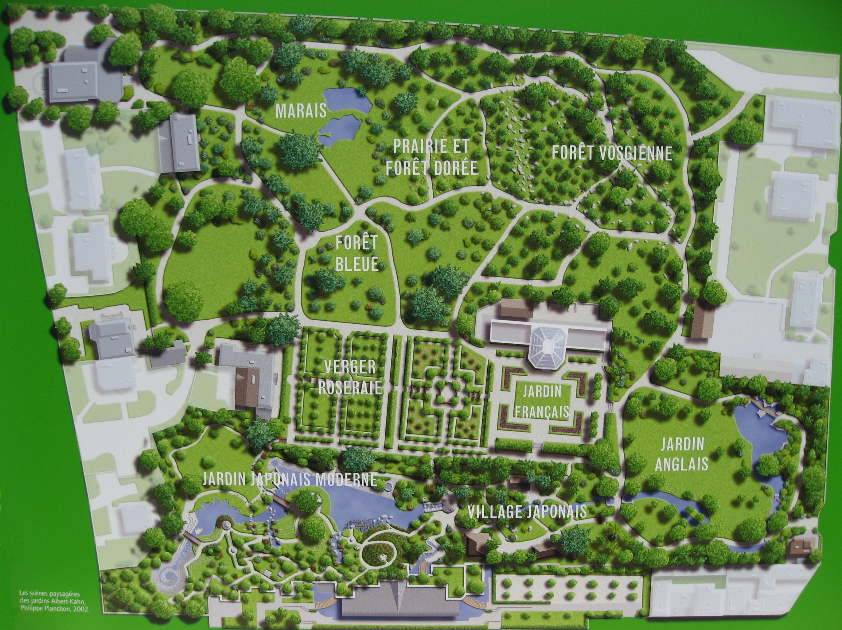 Map of Jardin du Musée Albert-Kahn Map: 48° 50' 30" N 2° 13' 40" E